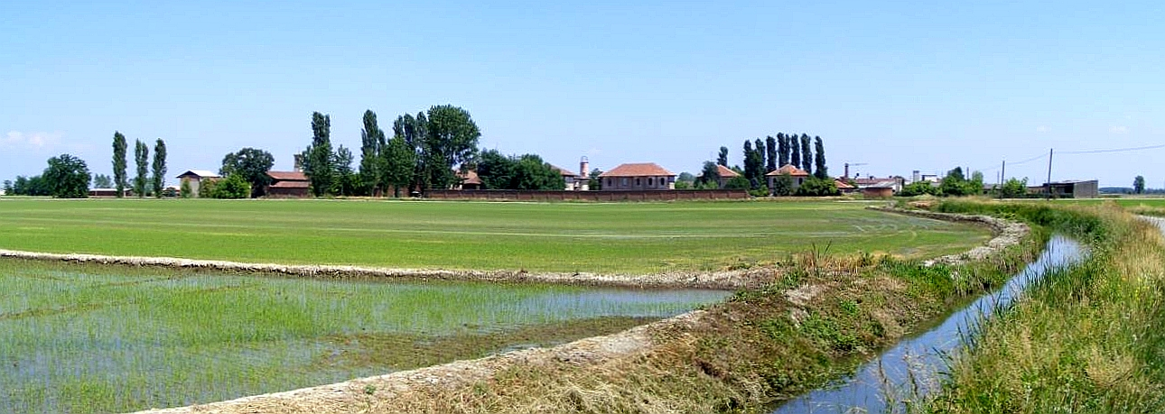 Sali Vercellese (VC, Italy): panorama